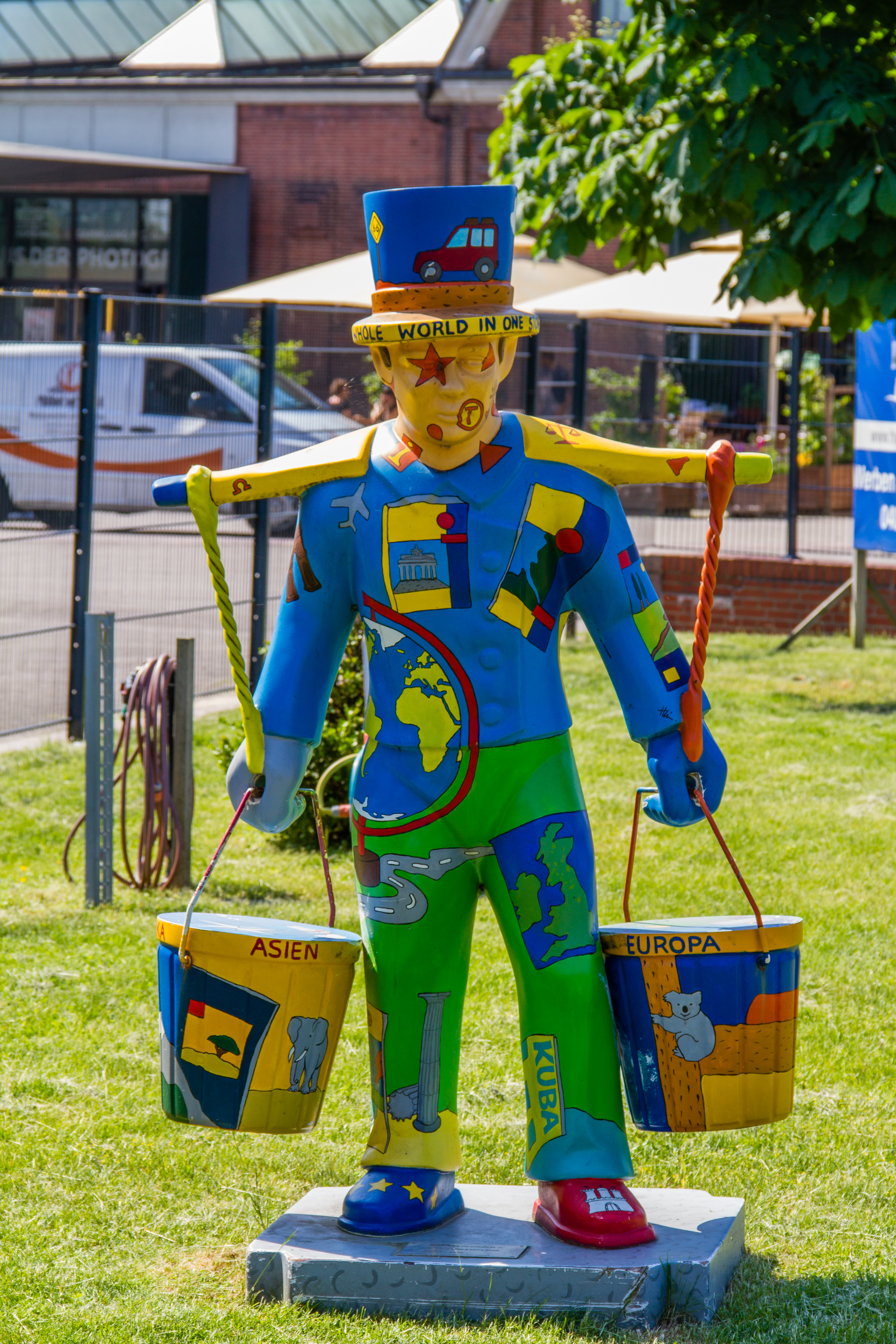 Figure of Hans Hummel, real name Johann Wilhelm Bentz (1787-1854). He lived in the "Großen Drehbahn Nr. 36" in Hamburg and is considered Hamburg original.